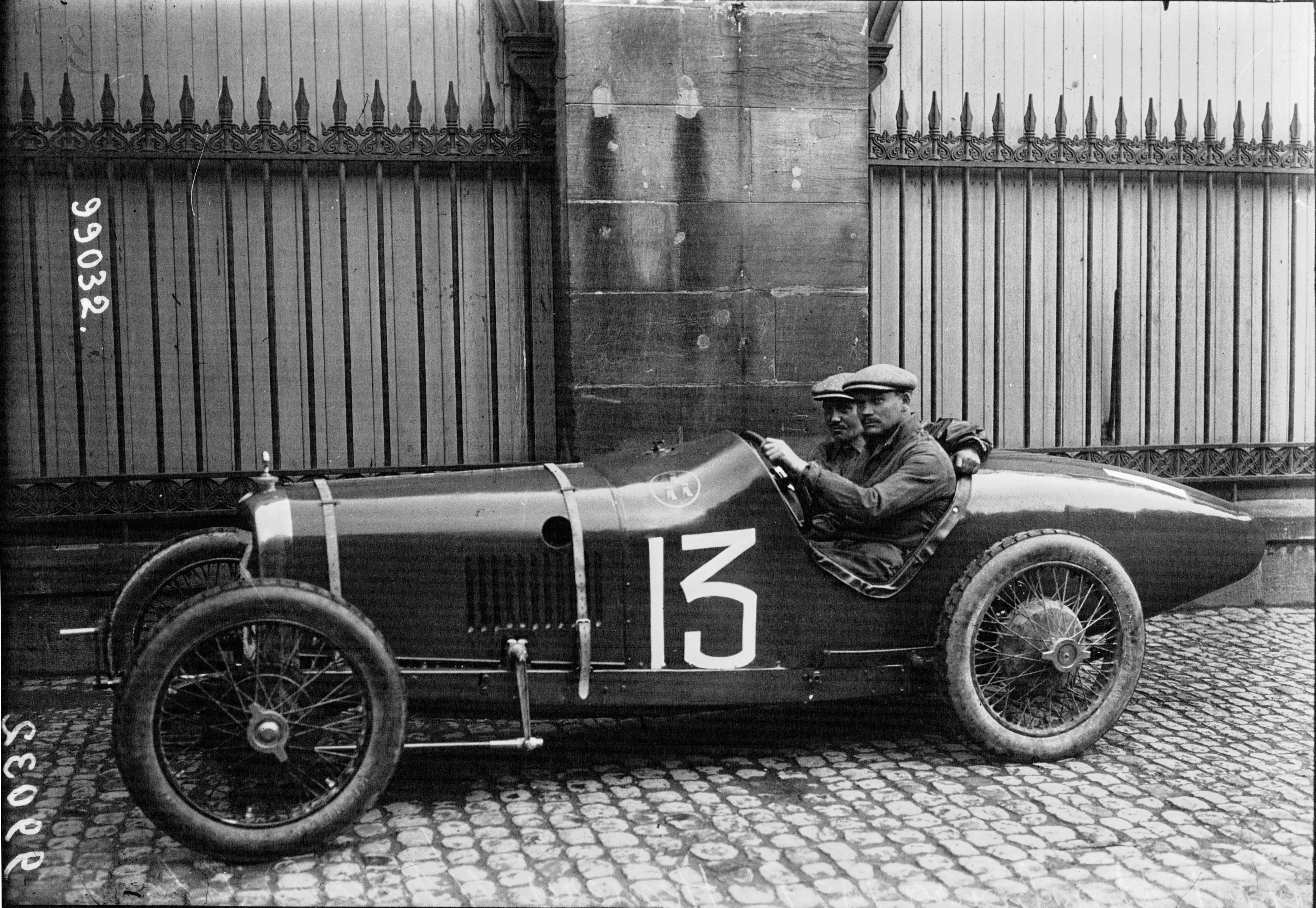 Victor Hémery at the 1922 French Grand Prix